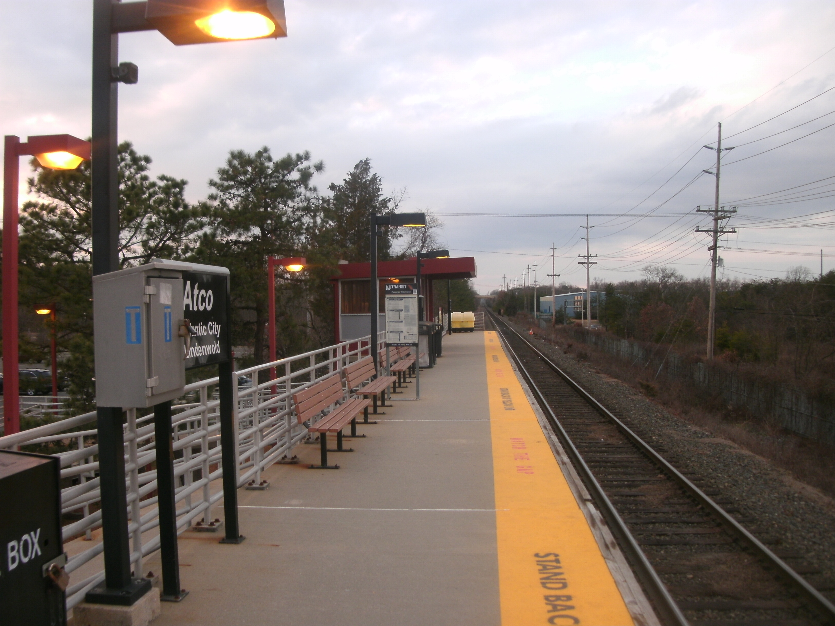 The Atco NJ Transit station as viewed from the eastern end of the platform facing towards Lindenwold.